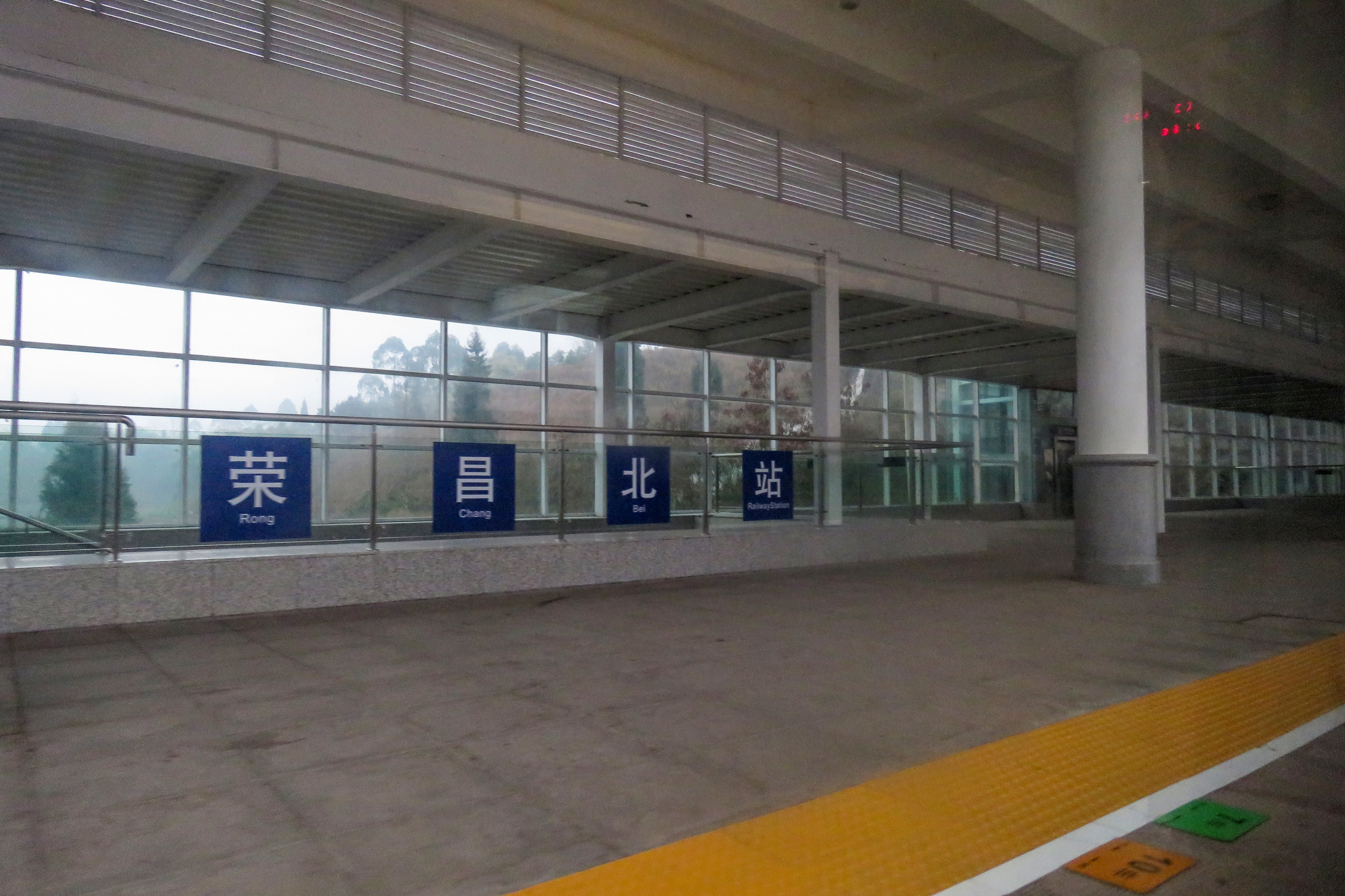 The announcement said "Chongqing Rongchangbei Station", possibly for avoiding confusion with Longchangbei.